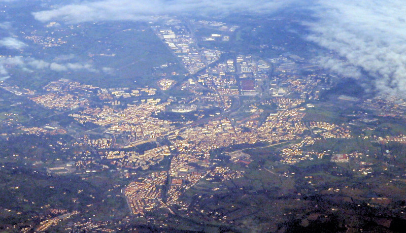 Arezzo, Tuscany, Italy.